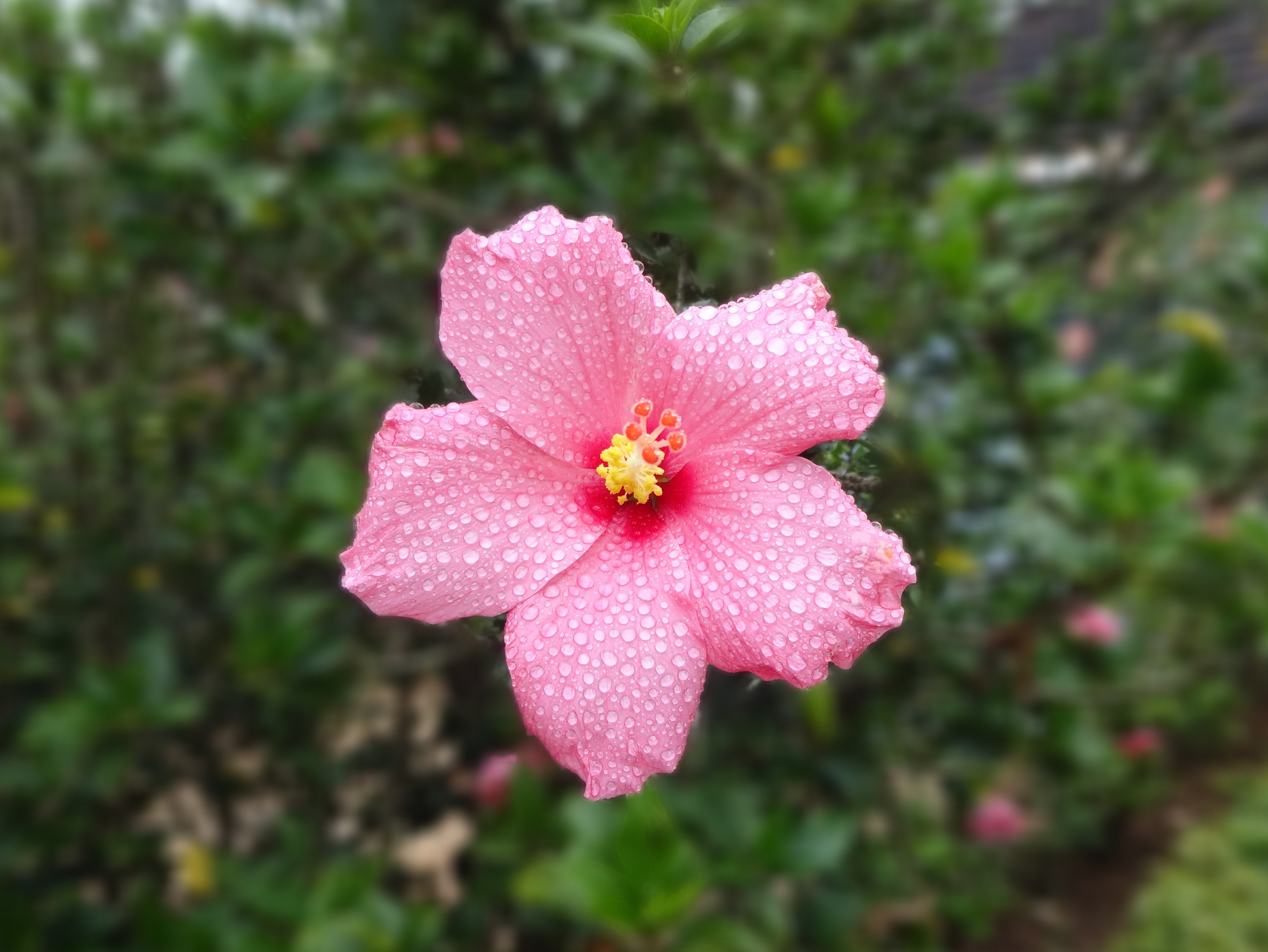 ದಾಸವಾಳ. ಕೊಡಗಿನ ಚೆಟ್ಟಳ್ಳಿಯಲ್ಲಿ ಕಂಡಂತೆ.